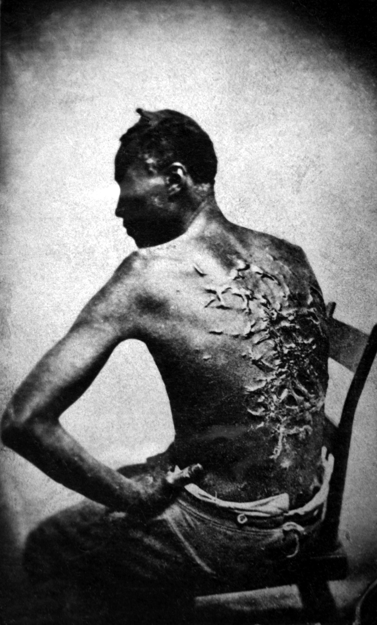 Scars of a whipped slave (April 2, 1863, Baton Rouge, Louisiana, USA. Original caption: "Overseer Artayou Carrier whipped me. I was two months in bed sore from the whipping. My master come after I was whipped; he discharged the overseer. The very words of poor Peter, taken as he sat for his picture." Other sources claim that this slave was known as Gordon and photographs show that he joined the U.S. Army with the rank of private and fought in the American Civil war. In Harper's Weekly issues (July 4, 1863) & (July 2, 1864) show woodcuts of Gordon as a slave and then as a U.S soldier[1][2]